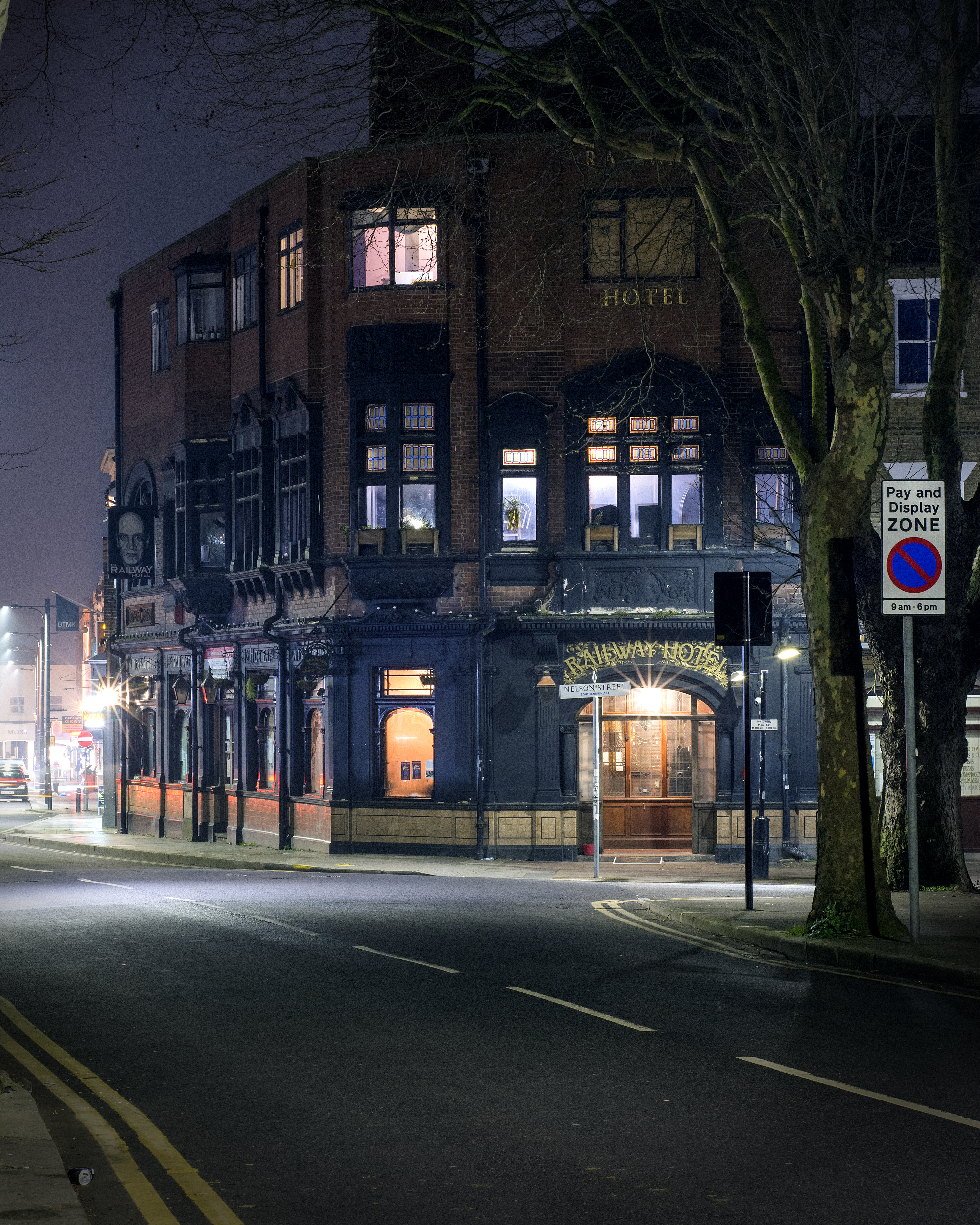 The Railway Hotel, Southend-on-Sea, 2019 (View from the west at night.)